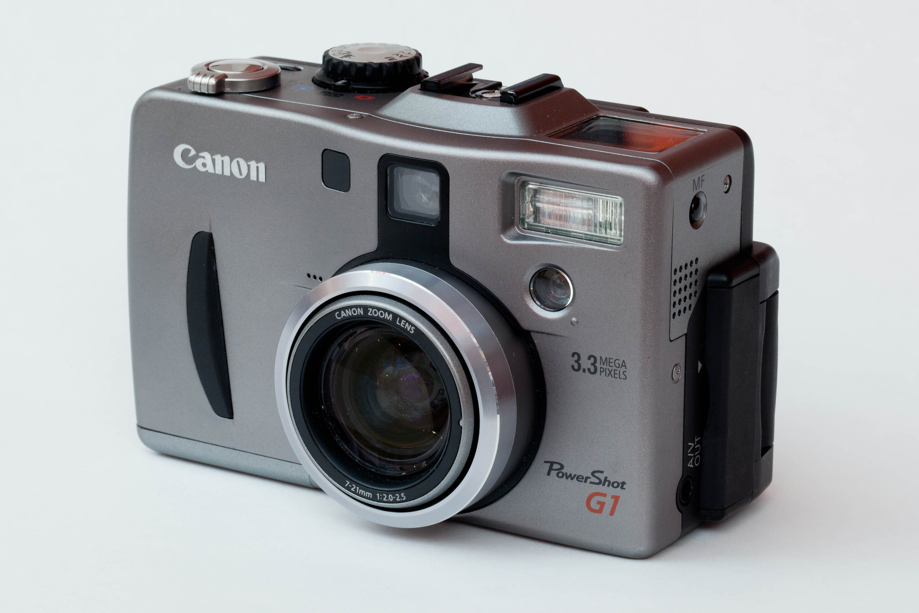 Canon PowerShot G1 (circa 2000) point and shoot camera